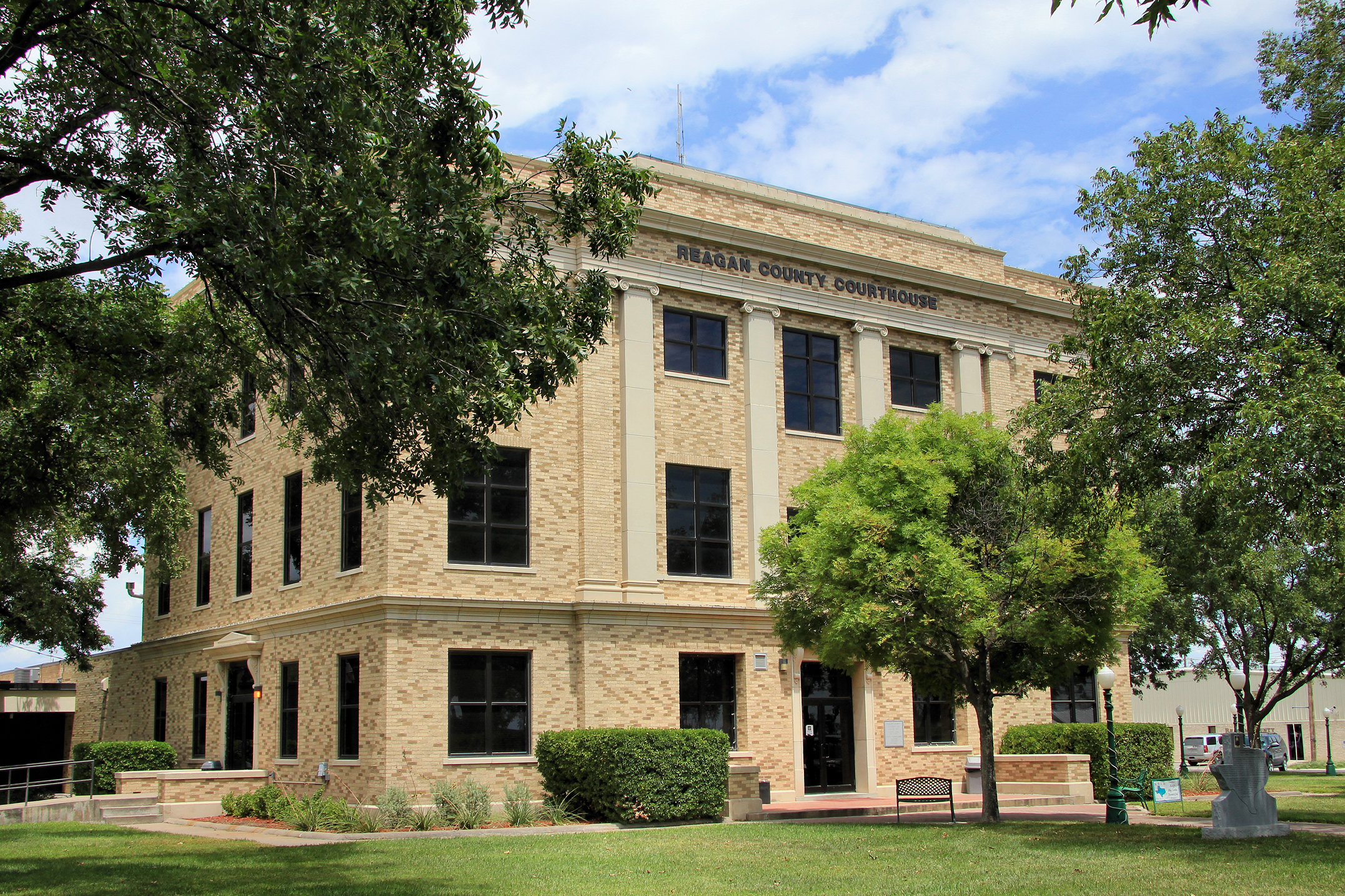 The Reagan County Courthouse in Big Lake, Texas, United States.